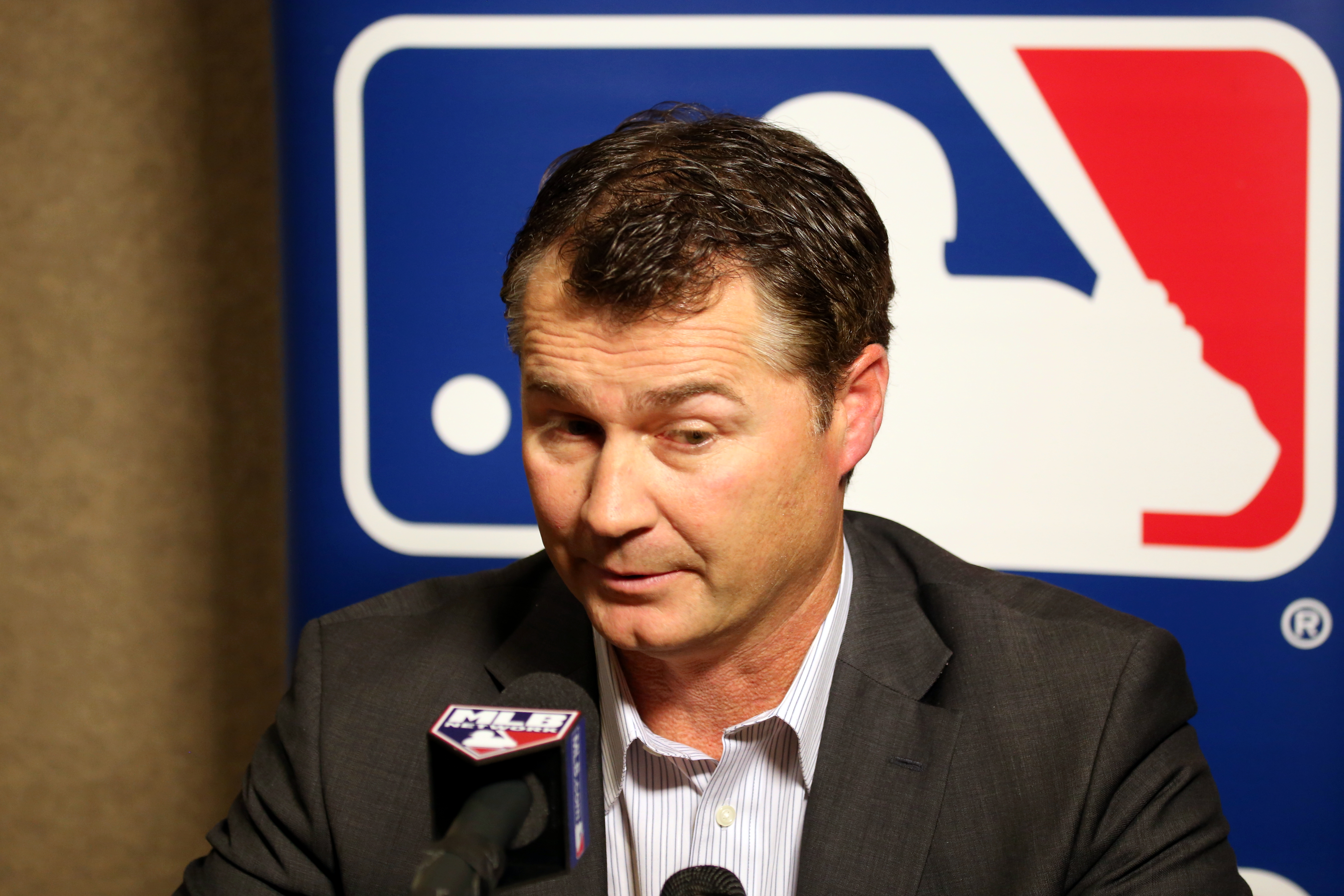 Mariners skipper Scott Servais talks to the media at the #WinterMeetings.